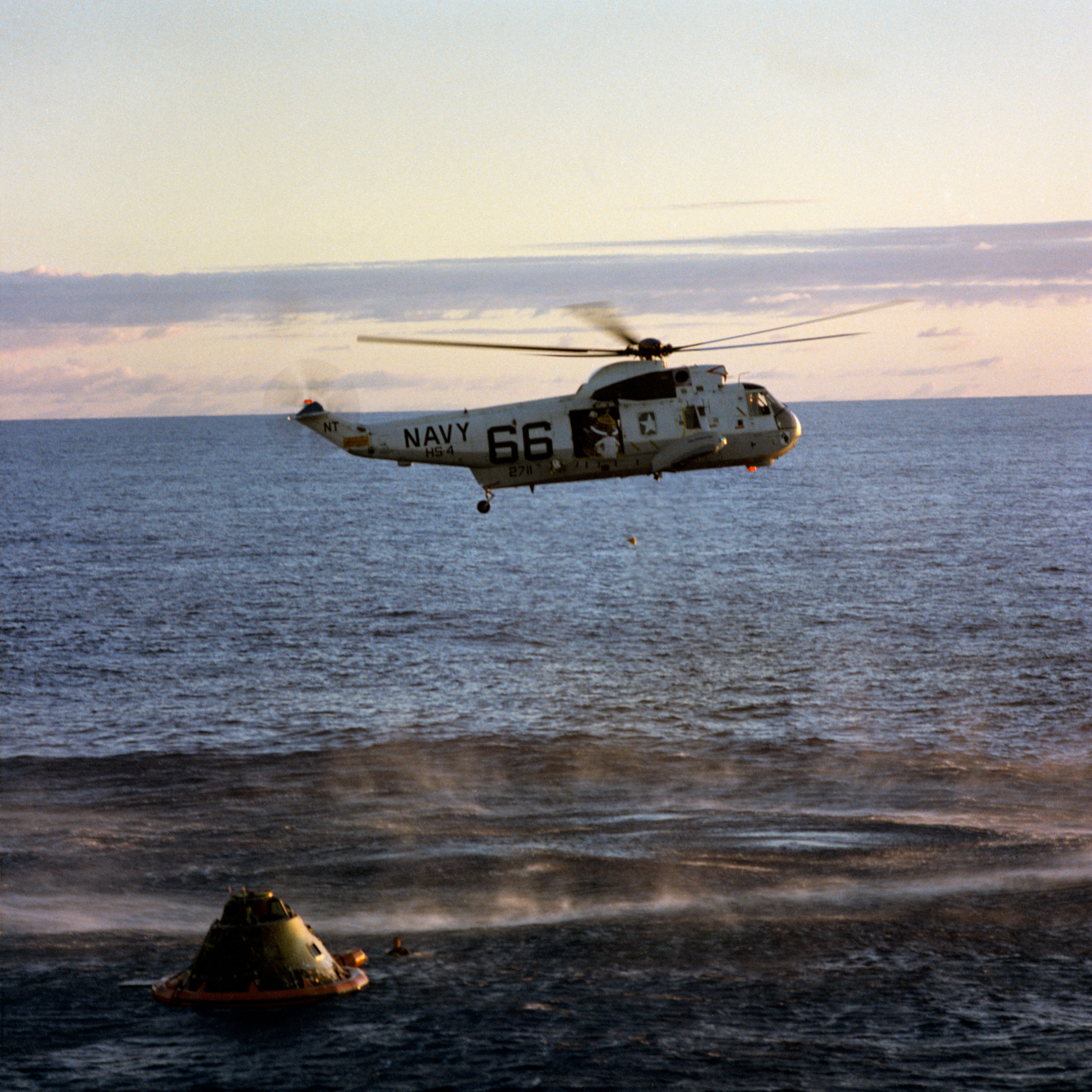 S69-20621 (26 May 1969) --- A member of the Apollo 10 crew is hoisted into a helicopter from the prime recovery ship, USS Princeton, during recovery operations in the South Pacific. Astronauts Thomas P. Stafford, commander; John W. Young, command module pilot; and Eugene A. Cernan, lunar module pilot, were picked up and flown to the deck of the USS Princeton where a red-carpet welcome awaited them. The spacecraft was later retrieved from the water and put aboard the recovery ship. The Apollo 10 splashdown occurred at 11:53 a.m. (CDT), May 26, 1969, about 400 miles east of American Samoa, and about four miles from the recovery ship, to conclude a successful eight-day lunar orbit mission. U.S. Navy underwater demolition team swimmers assisted in the recovery operations.